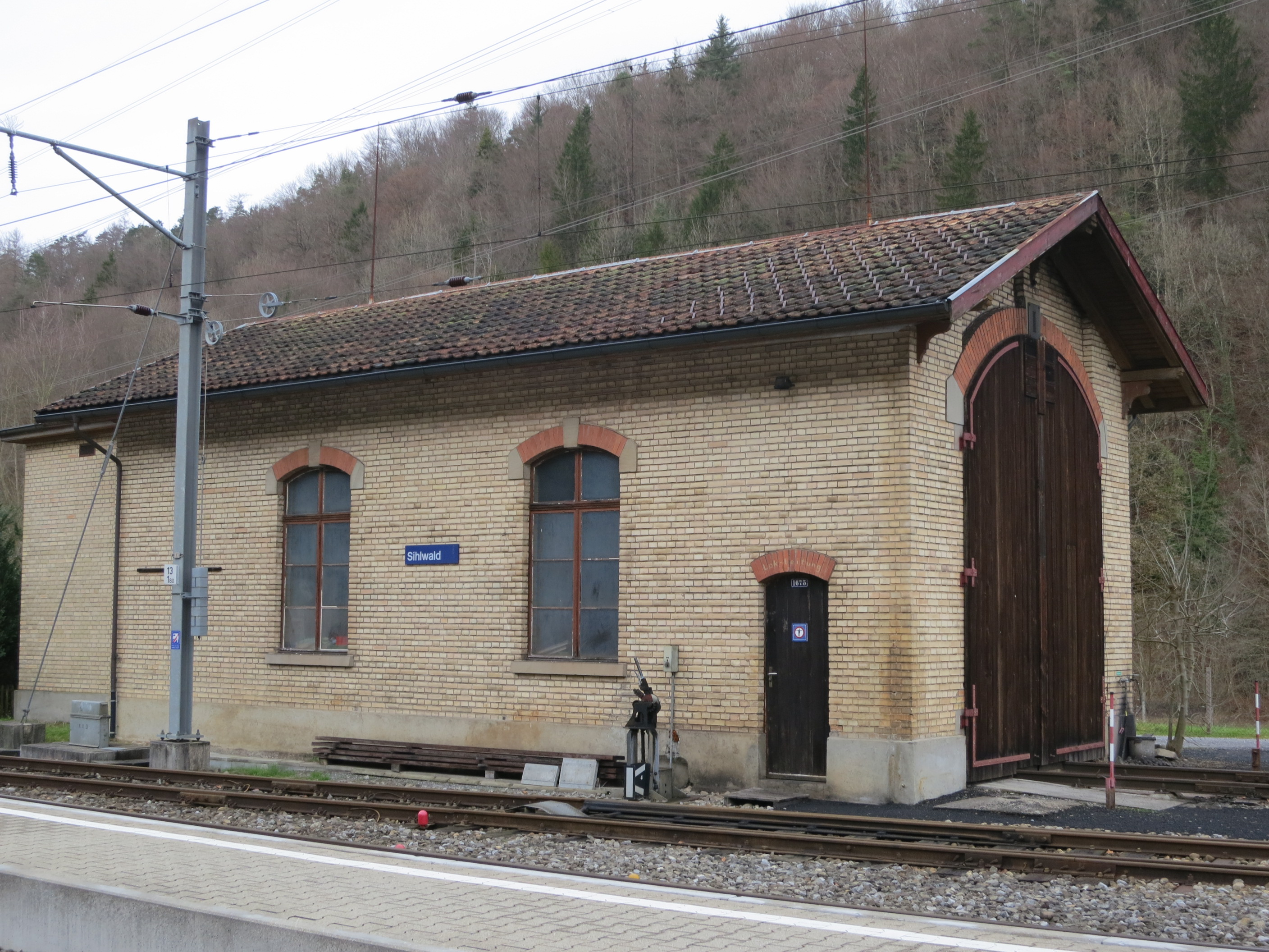 Lokomotivremise Sihlwald von 1897, Horgen ZH, Schweiz